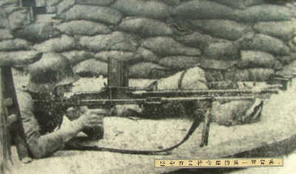 NRA soldiers firing inside Sihang warehouse. 该团每人装备一支中国仿造Gewehr 88或Gewehr 98式步枪300发8毫米毛瑟子弹，两箱手榴弹，一顶德制M1935式头盔，一副防毒面具及食物袋。守军共装备有27挺轻机枪，大部分为ZB26式轻机枪（布伦式轻机枪），接近每班一挺。4挺24式水冷马克沁机枪以及一个迫击炮排。